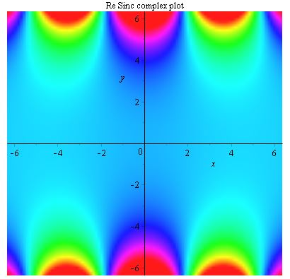 Re Sinc complex plot